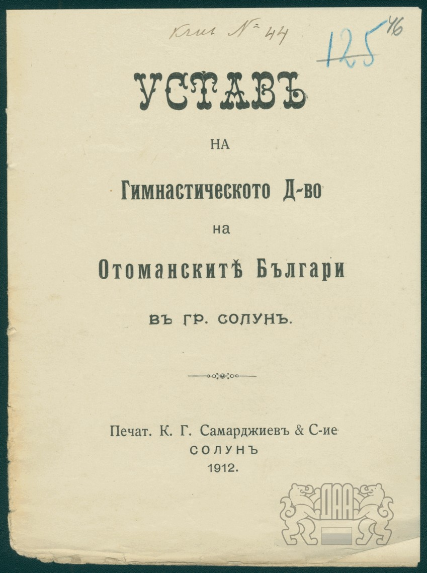 Statute of the Gymnastic Society of the Ottoman Bulgarians in Thessaloniki